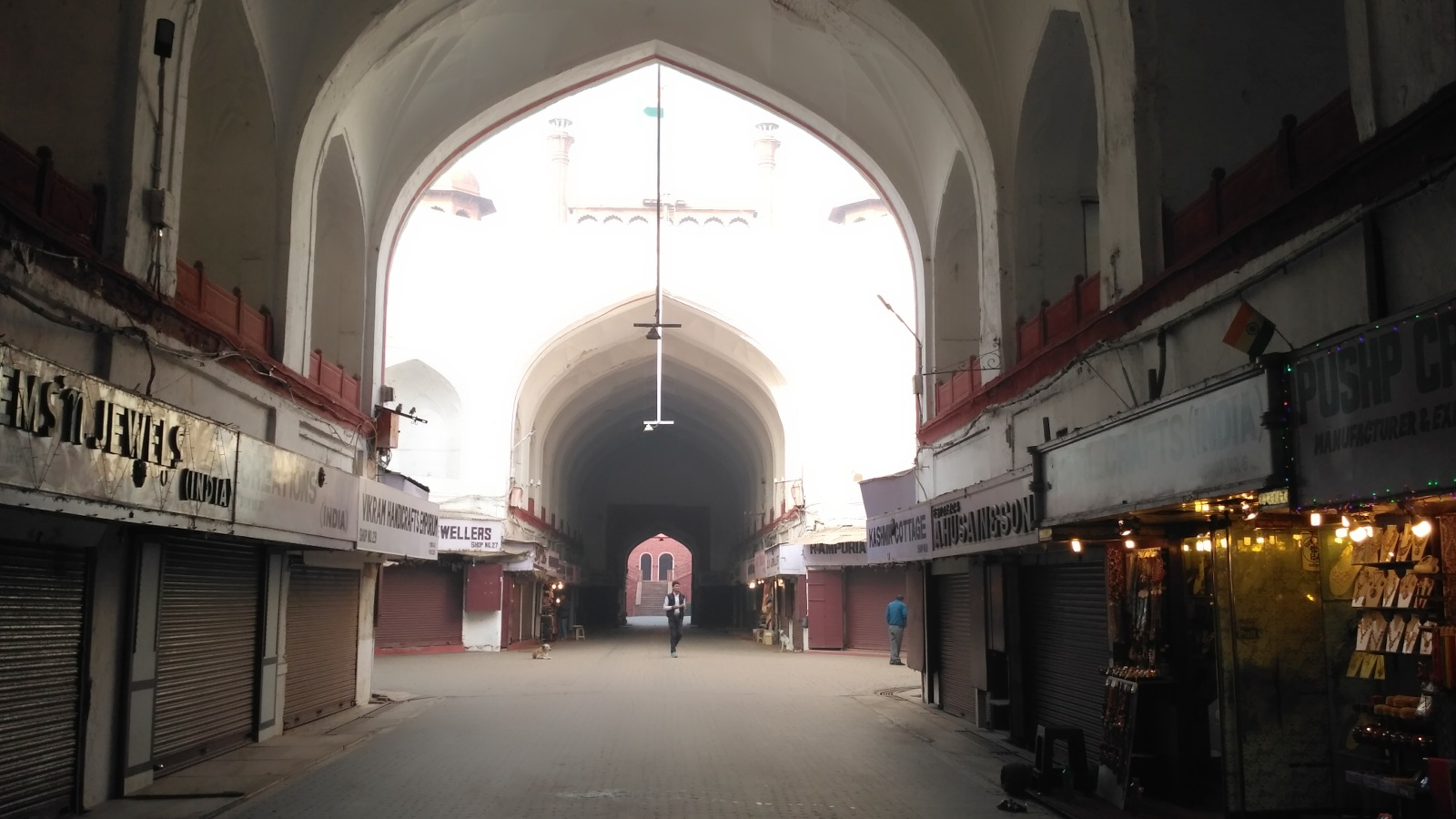 You can find the Chatta Chowk "covered market" shortly after you enter the Red Fort past the Lahore Gate. This is a historic "covered market" that occupies the passage area, just inside the Red Fort, as you enter through the Lahore Gate. History suggests that the market area was built at the order Shah Jahan in the mid 17th century to satisfy the shopping needs and desires of the Mughal women of rank, who resided within the fort but wished to not venture outside its gates. This explains the peculiar small market of 40 or so shops lining the covered passage way into the main interior of the fort. The historic element of the Chatta Chowk makes it of interesting note but the shopping experience here is nothing you can't find in the nearby Chandni Chowk street markets or in the shops that line Janpath Rd. and others near CP. Shop prices are clearly marked up for the tourists that tend to pass by and potentially patronise these shops. Overall, we found Chatta Chowk to be a minor point of interest only but you can't help but pass through if you are planning to visit the Red Fort so a quick peek inside a few of the shops can do you know harm.